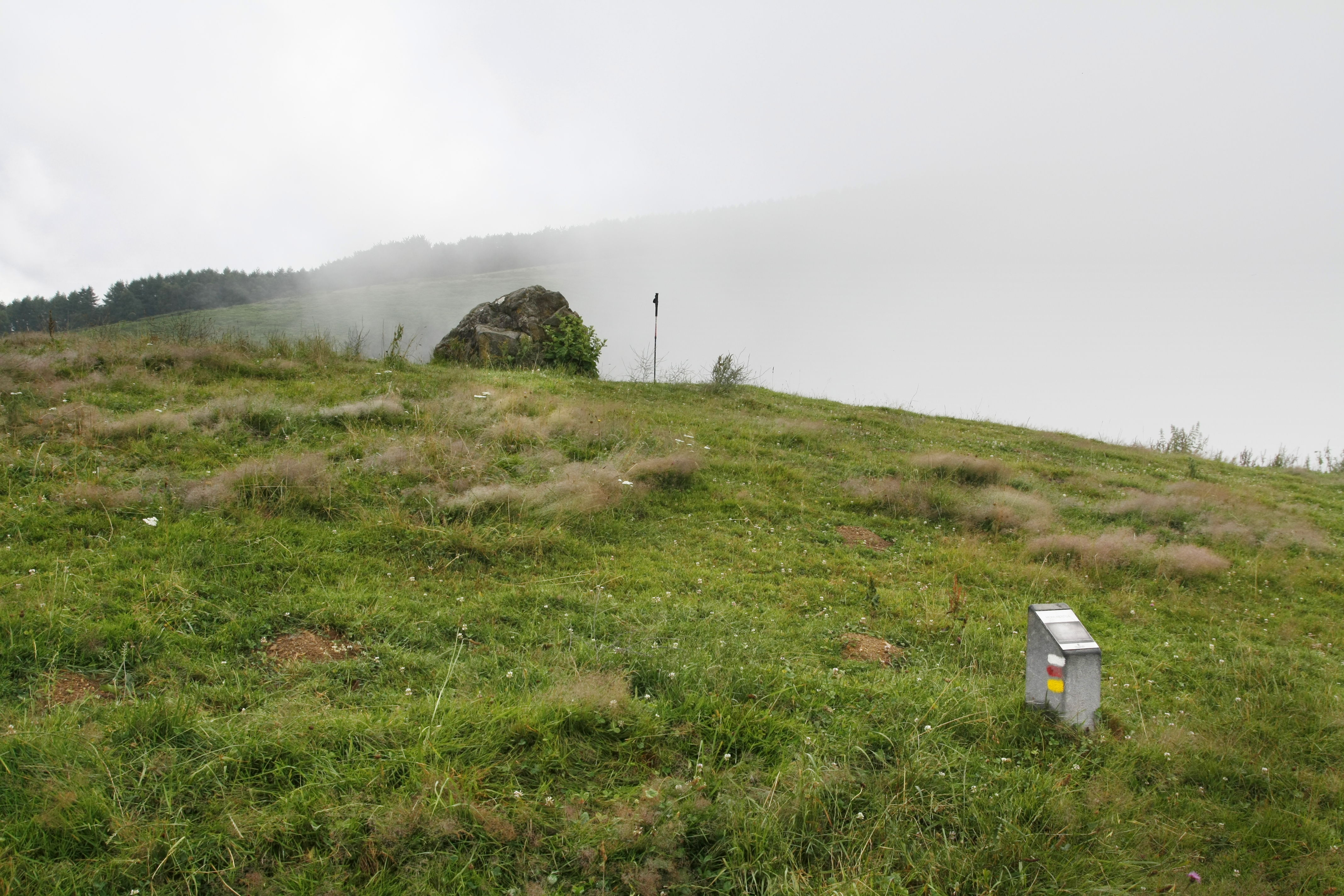 Larrarte dolmen